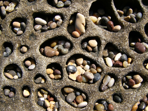 Tafoni and Pebbles, somewhere